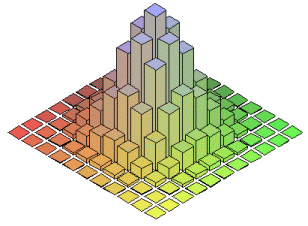 random walk on a grid